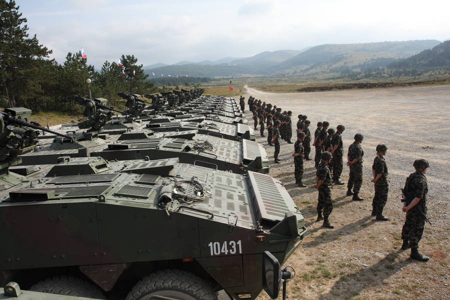 Presentation of Svarun 8x8 (Patria AMV)